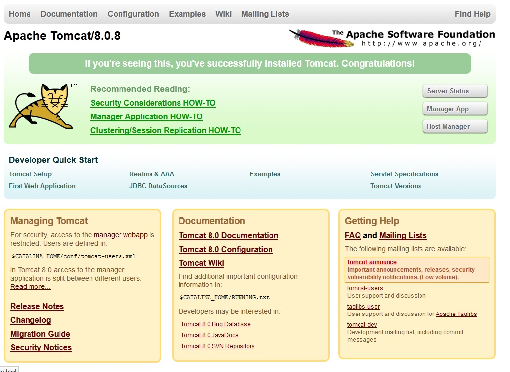 Screenshot of Apache Tomcat (jakarta project) default front page. Browser is Gnome Epiphany.